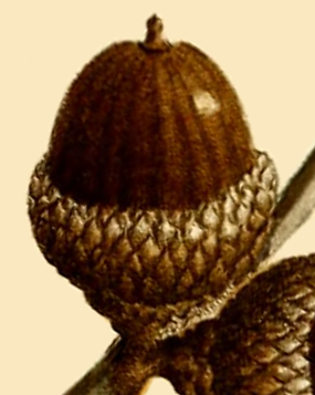 Acorn detail from Histoire des arbres forestiers de l'Amérique septentrionale: Quercus ilicifolia - bear oak.Original caption: Quercus banisteri. Bear's Oak.